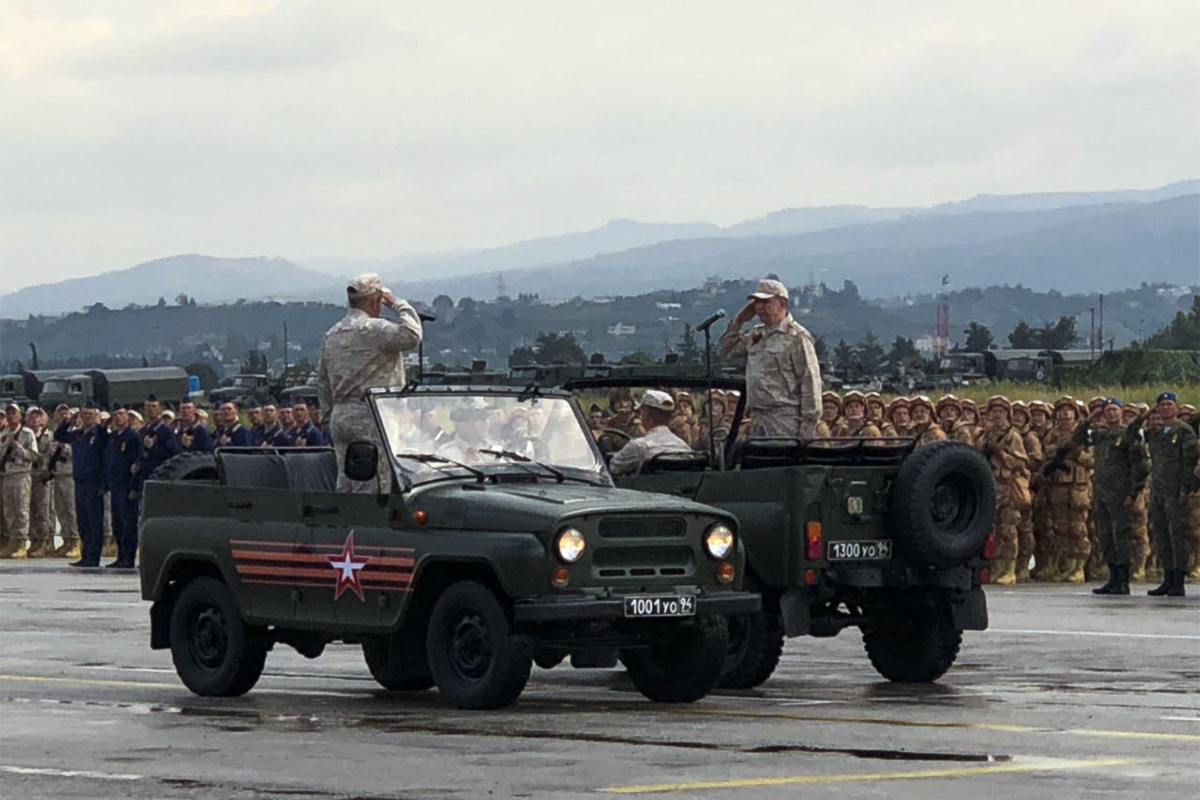 9 мая 2018 года на авиабазе Хмеймим состоялся военный парад, посвященный 73-й годовщине Победы в Великой Отечественной войне